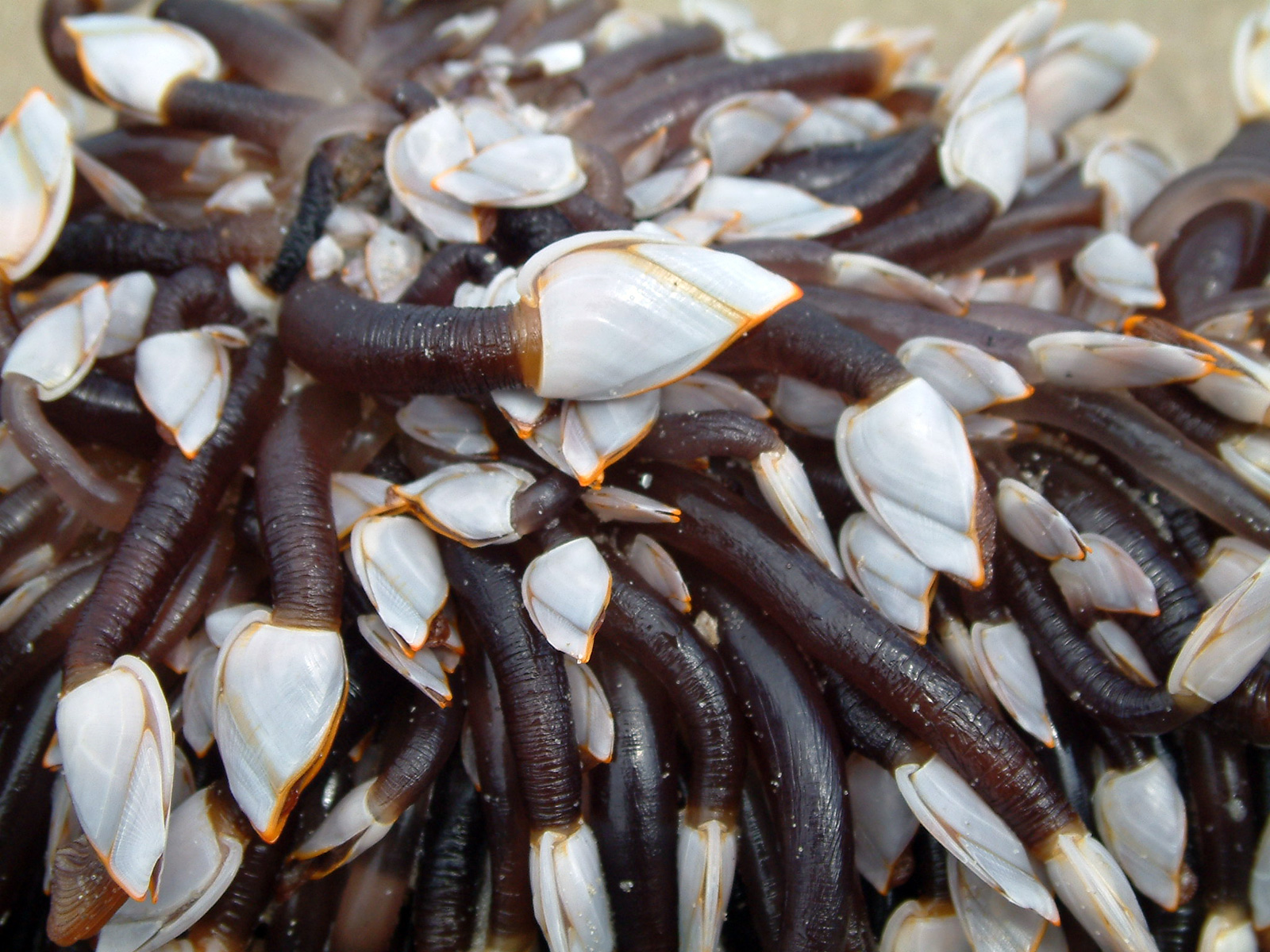 Gooseneck Barnacles (Lepas anatifera)